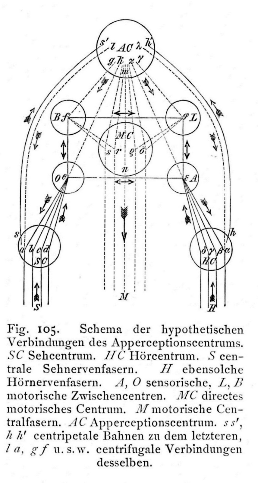 Apperception centre: Hypothetical connections